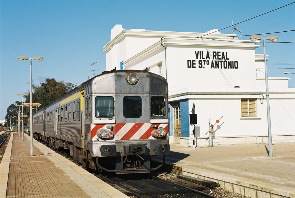 the train type 0600 (train no. 609) in Vila Real do Santo António, Portugal